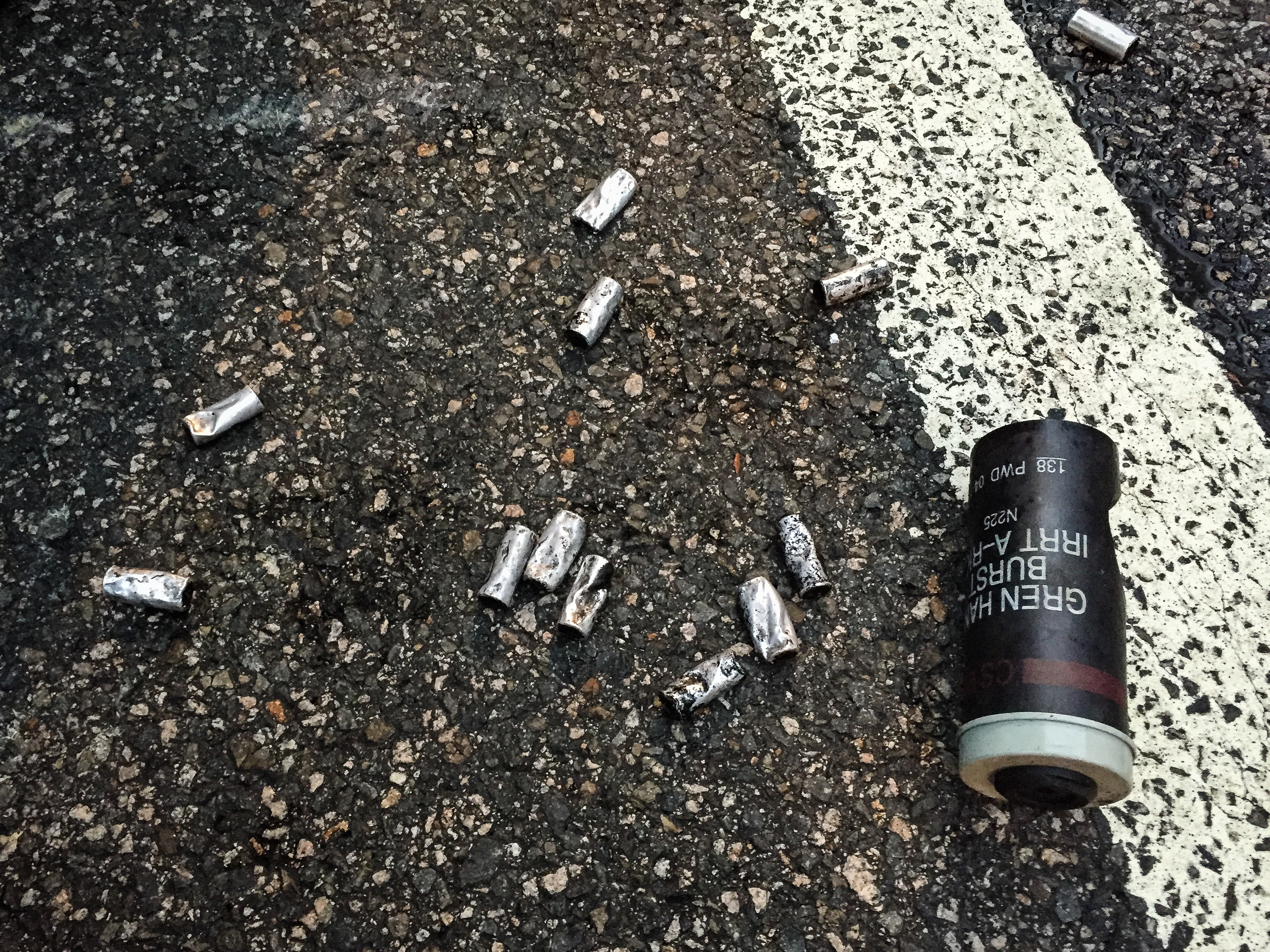 Tear Smoke by Hong Kon Police Forc